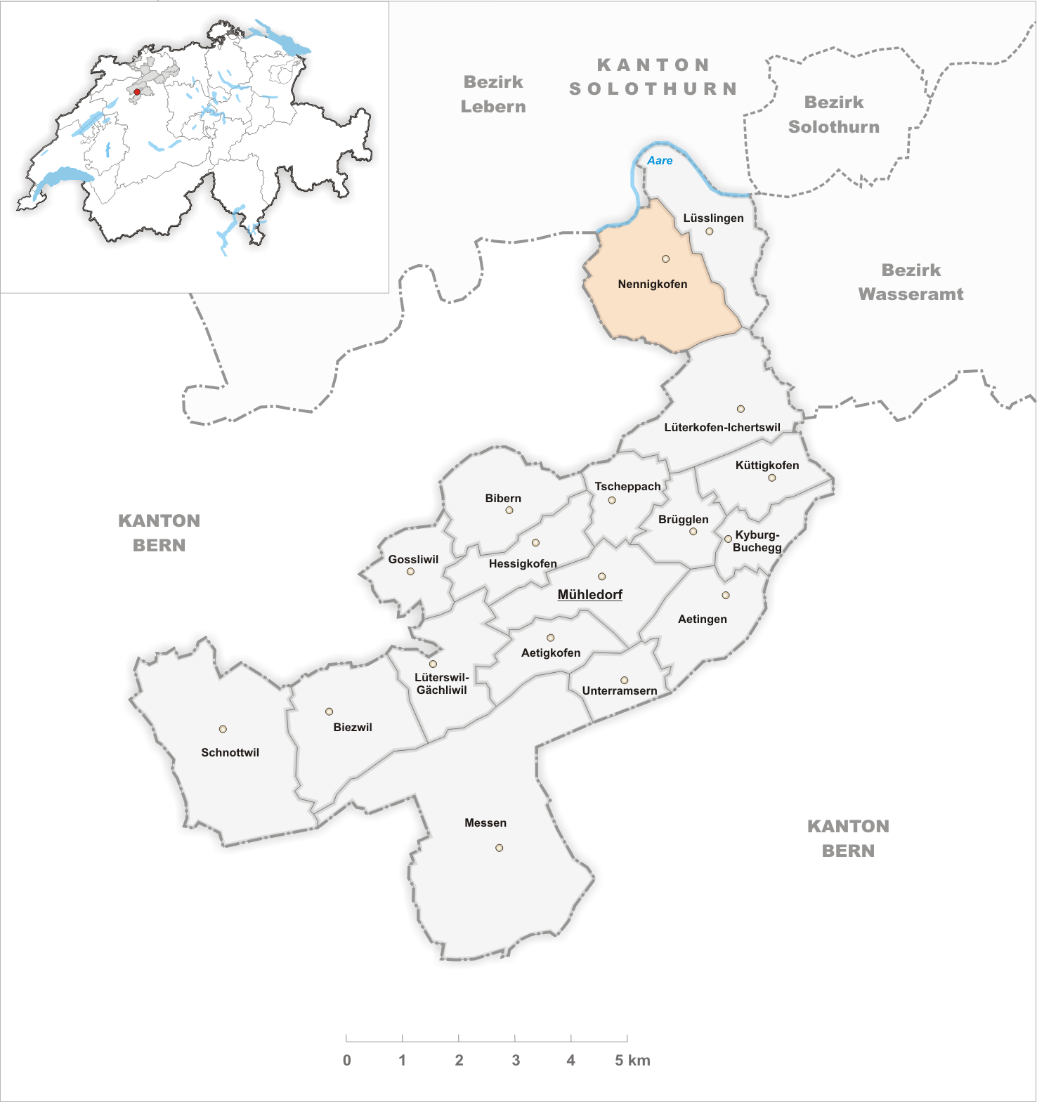 Municipality Nennigkofen